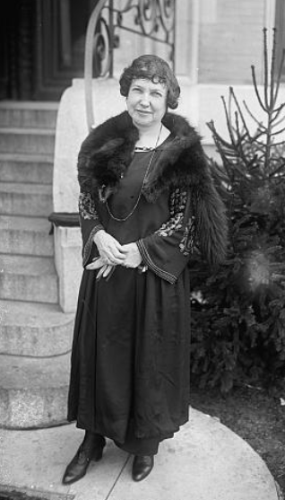 Milagros Benet de Newton, Puerto Rican Suffragist in 1922